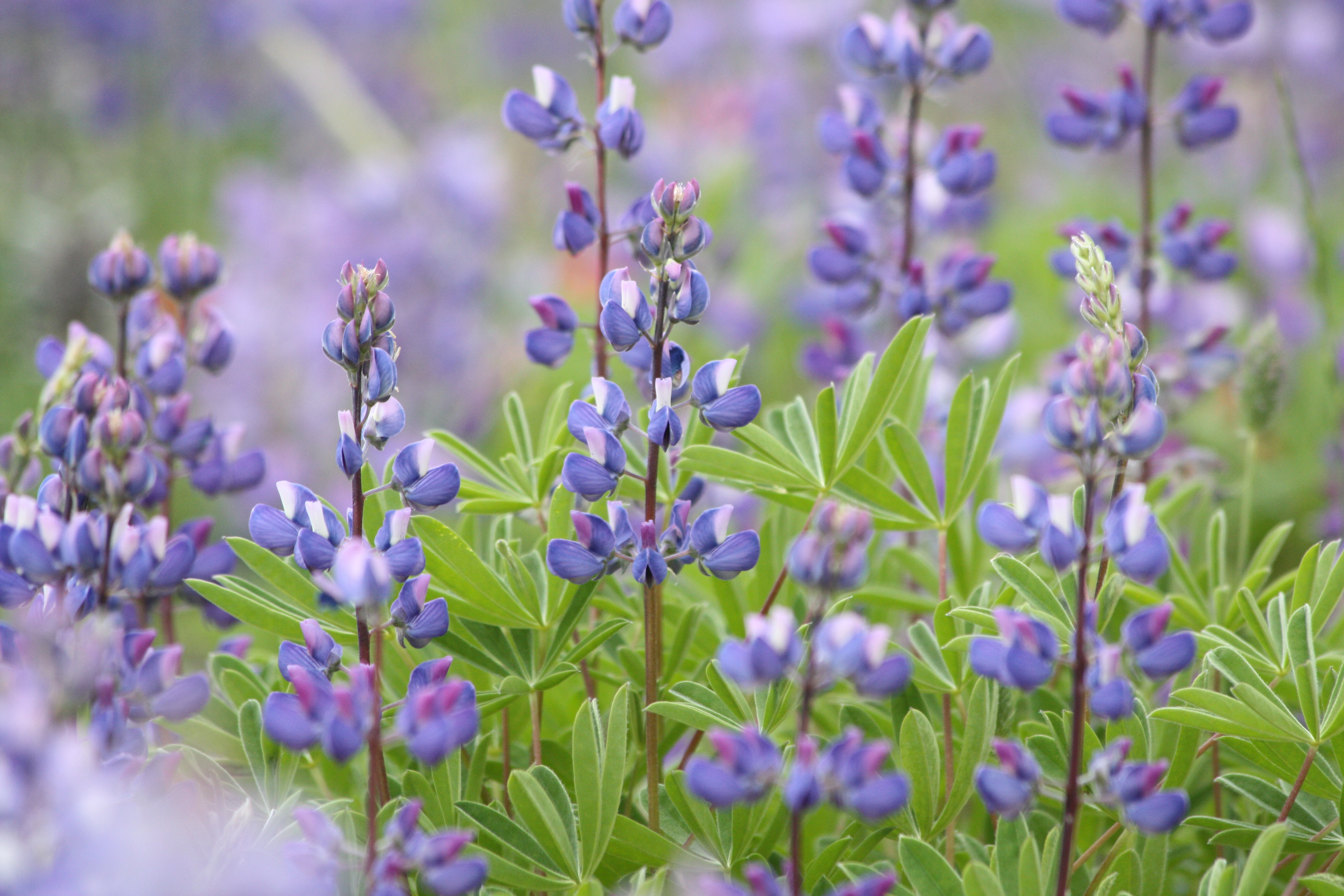 Broadleaf Lupine